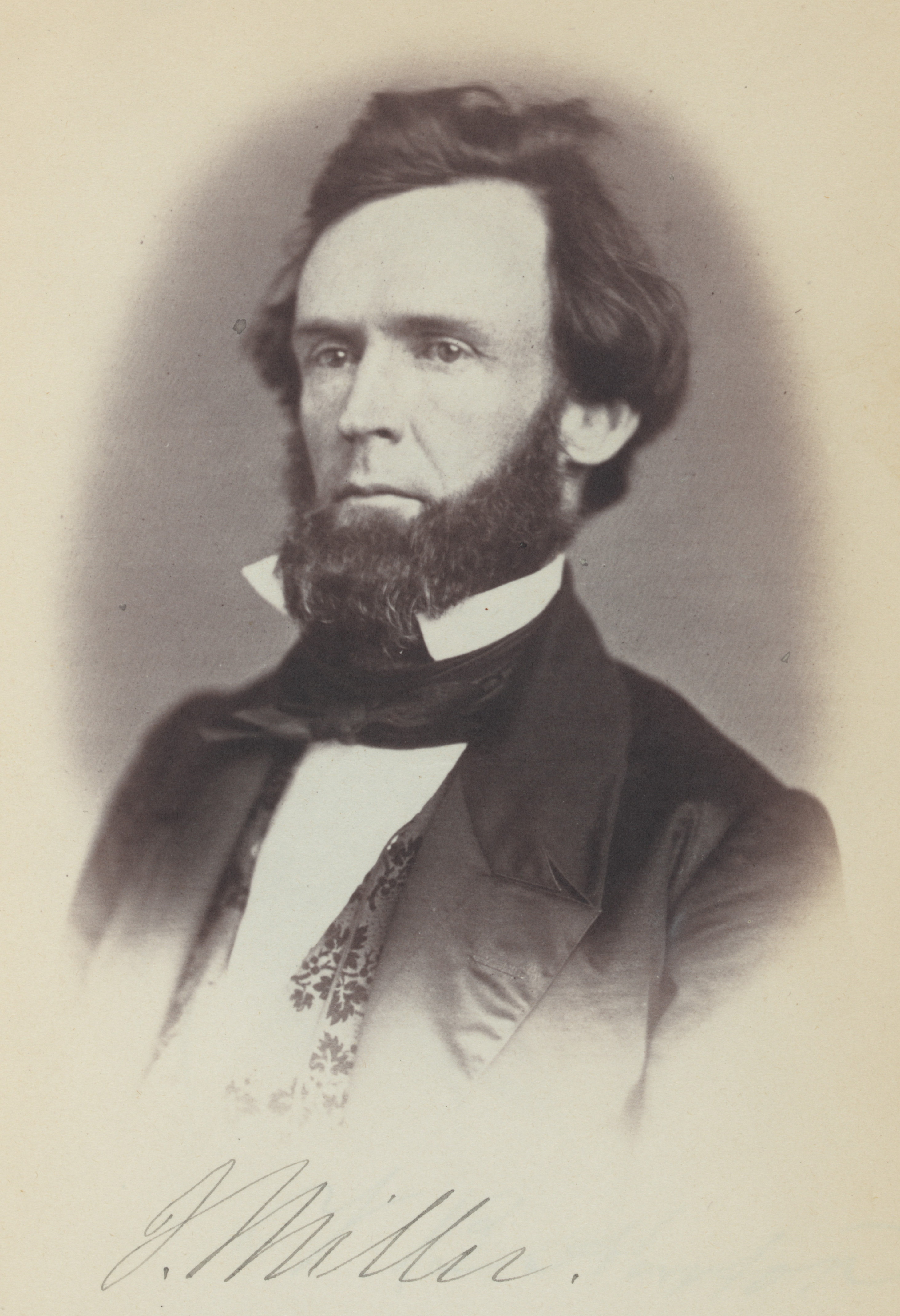 Joseph Miller, congressman from Chillicothe, Ohio.from (1859) McClees' gallery of photographic portraits of the senators, representatives & delegates to the thirty-fifth Congress, Washington: McClees and Beck, p. 202 .